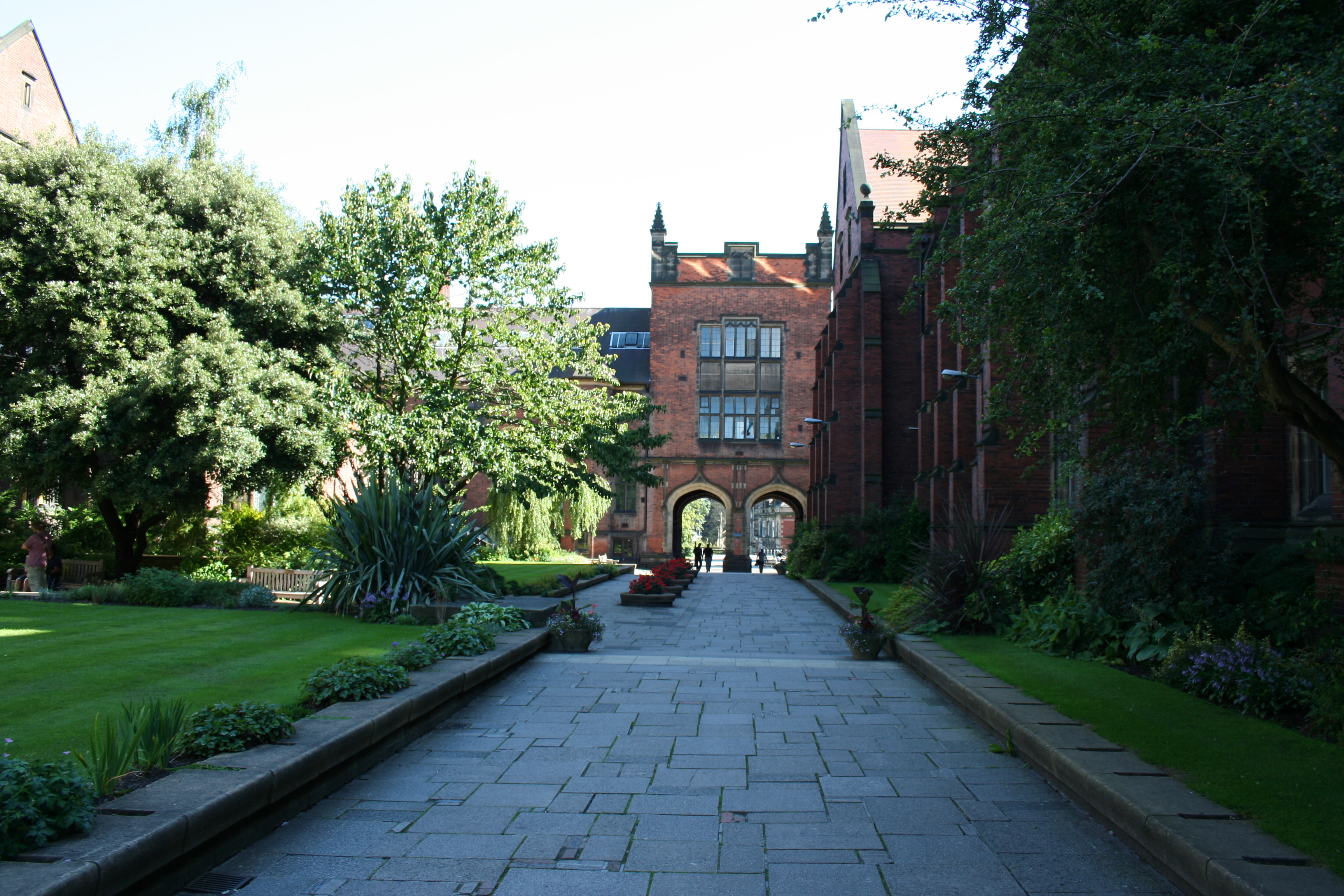 Quadrangle, Newcastle University